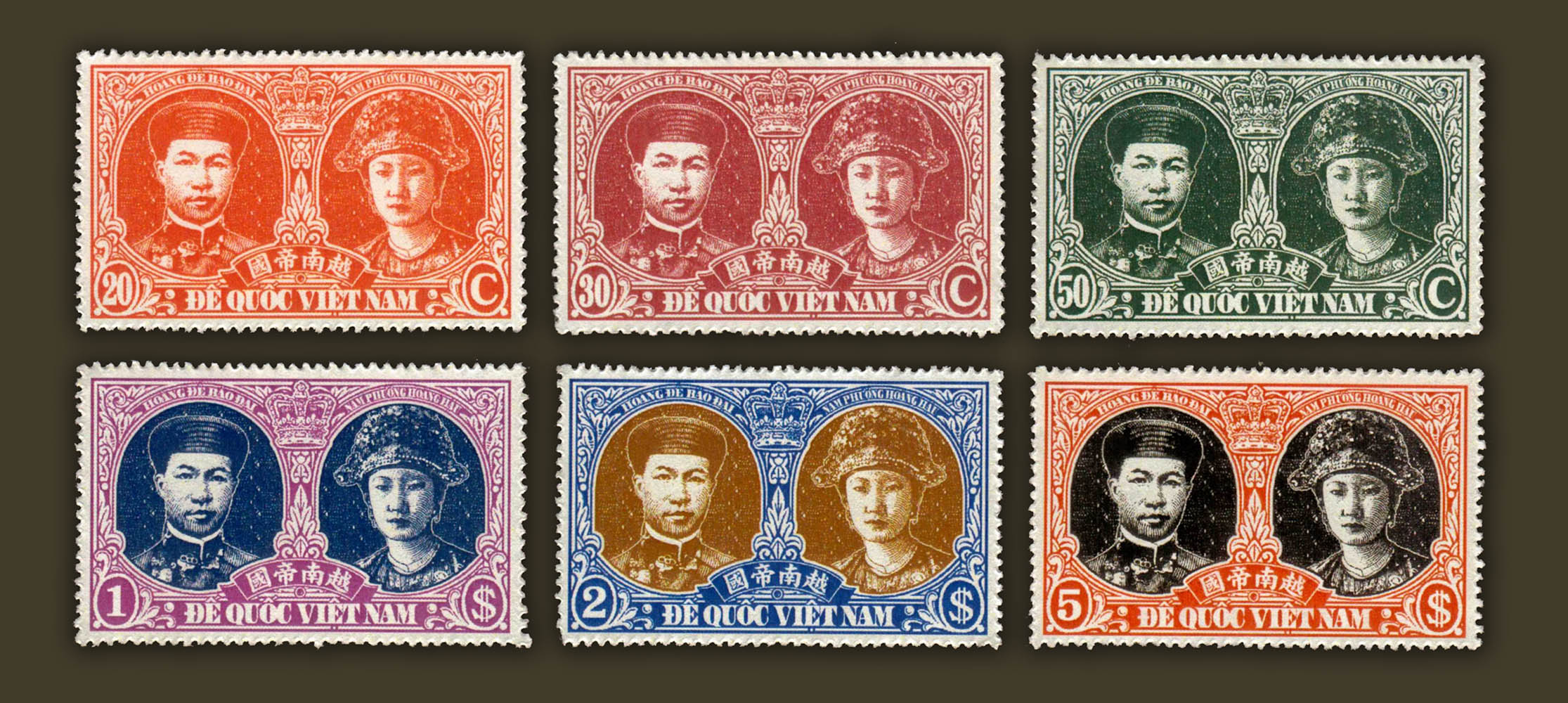 Stamps with the printed portrait of Emperor Bao Dai and Queen Nam Phuong. Vietnam under the Empire.